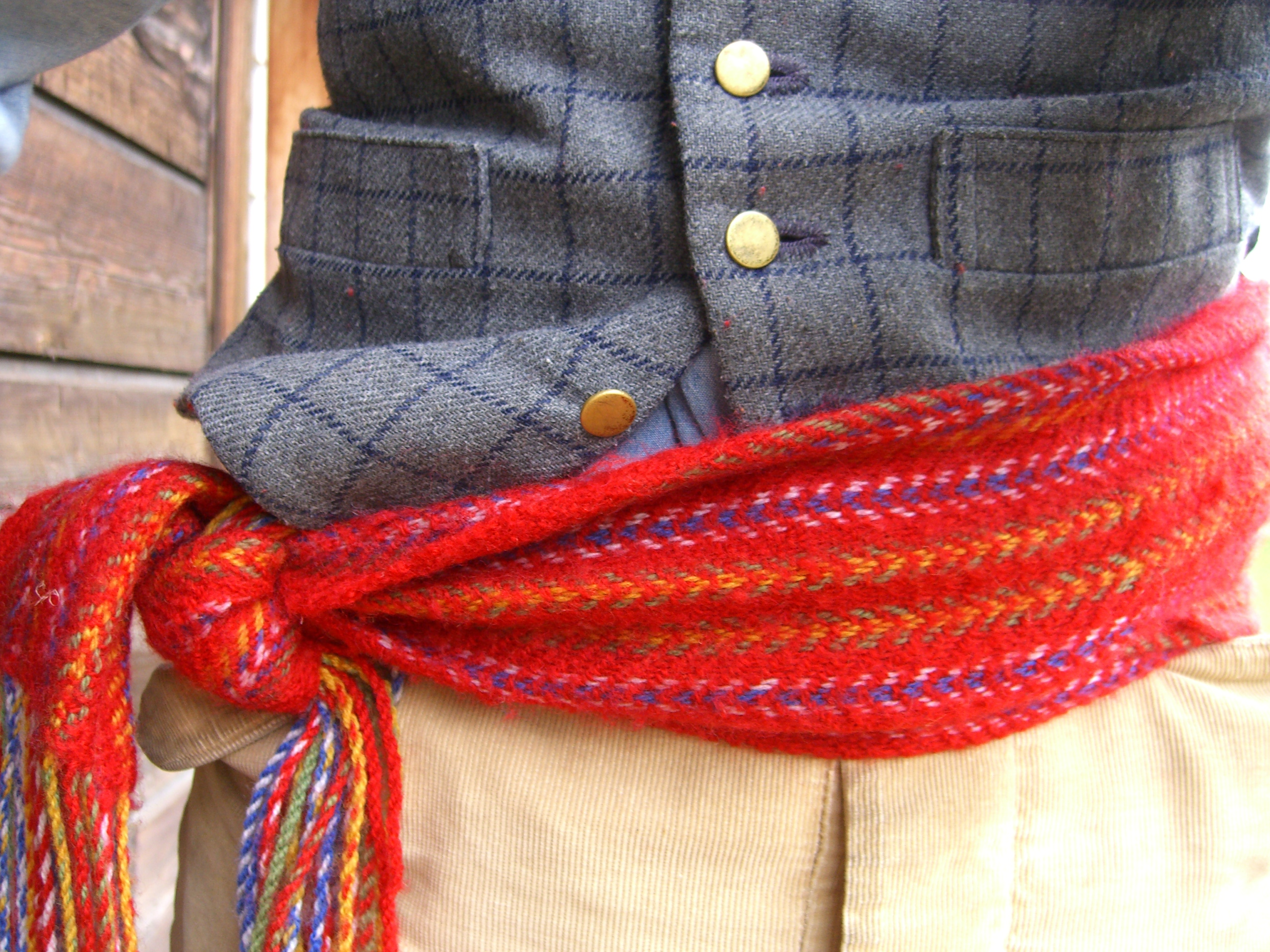 A ceinture fléchée at Fort Langley National Historic Site